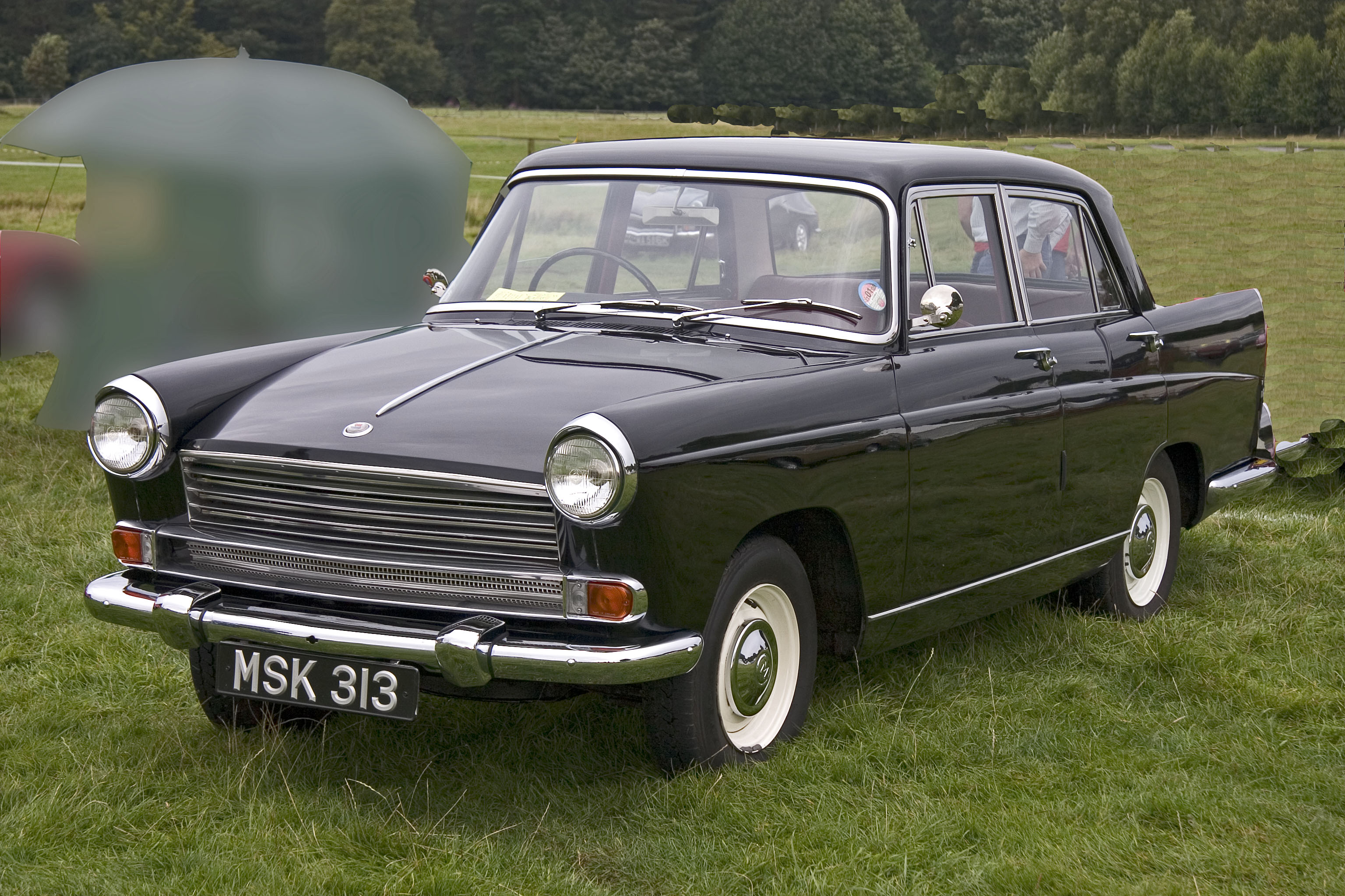 Morris Oxford Series V. Equiiped with a 1489cc B-series engine, the Oxford Series V was produced from 1959-61 and 87000 were made